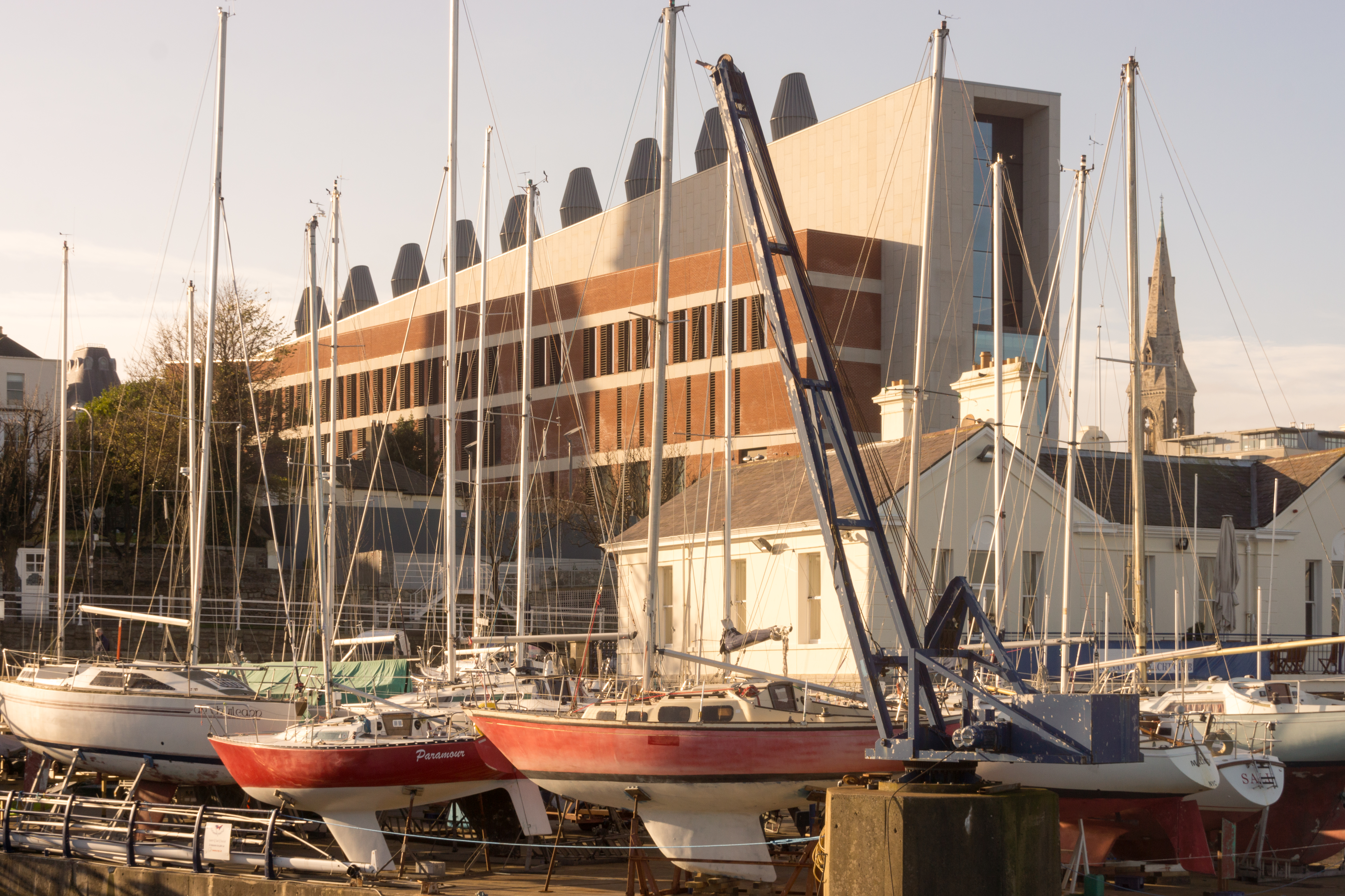 DLR Lexicon in Dún Laoghaire: the north east façade viewed from the East Pier